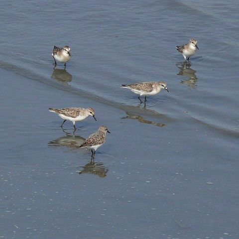 winter plumage